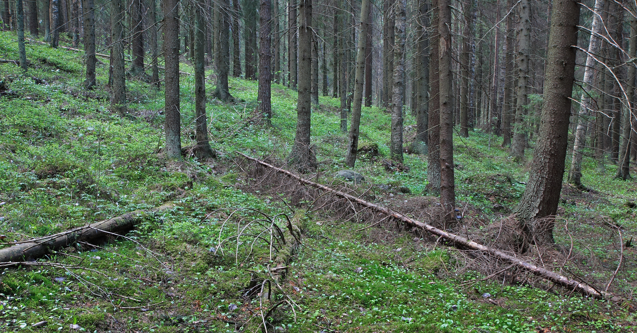 Sipoonkorpi forest in Finland